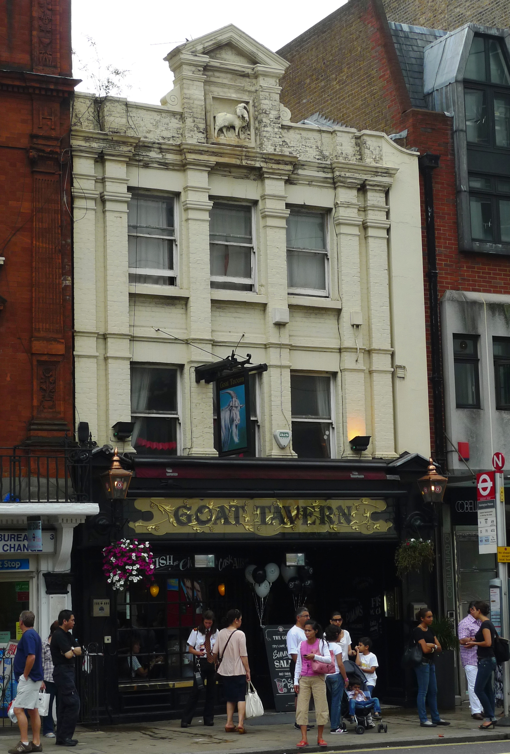 A not unattractive, but not particularly appealing, pub on Kensington High Street. It's right behind a bus stop, hence the large numbers of people milling about. Address: 3a Kensington High Street. Owner: Spirit Pub Company [Taylor Walker] (website); Punch Taverns [Spirit Group] (former). Links: Fancyapint Pubs Galore Beer in the Evening Dead Pubs (history)